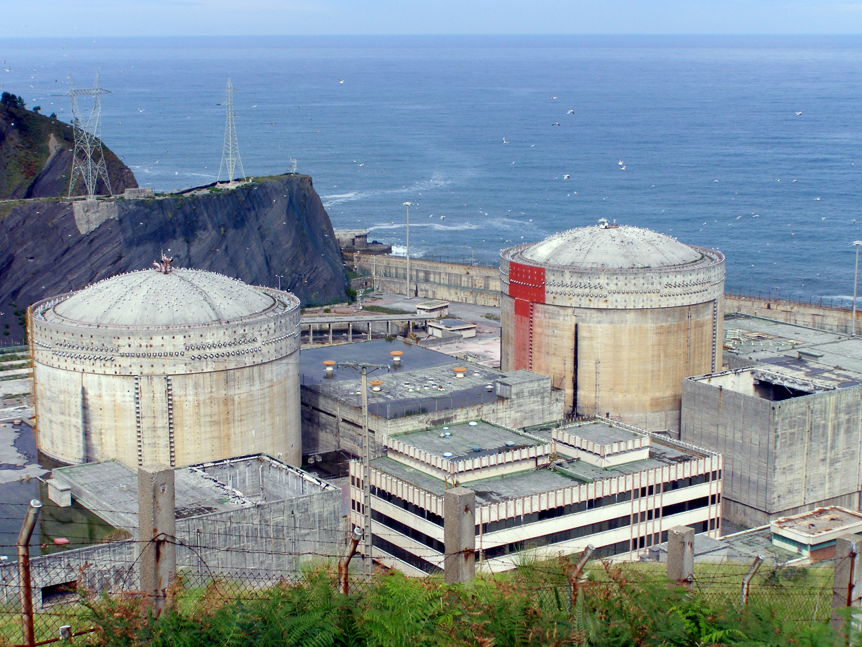 East view of the nuclear power plant of Lemóniz.